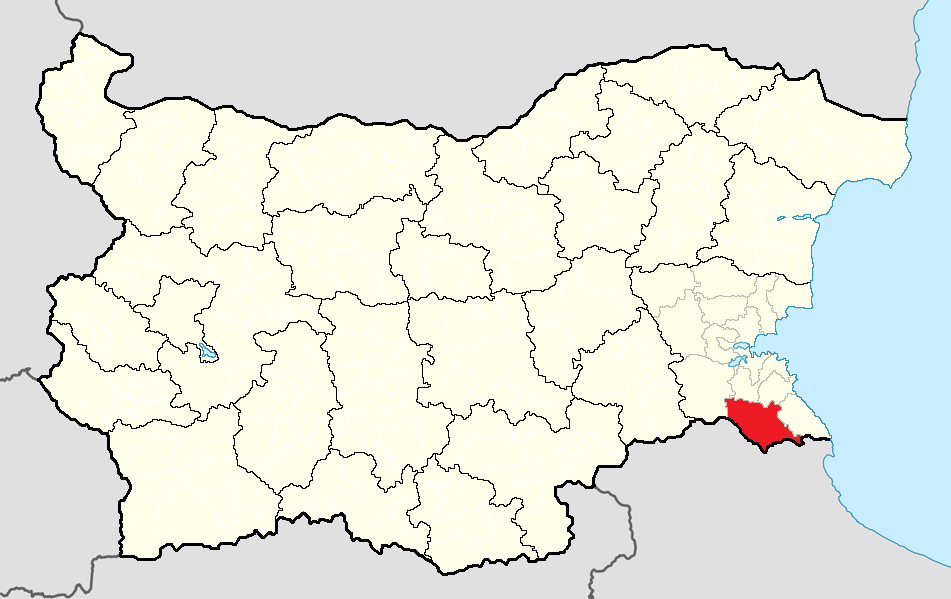 Location map of Malko Tarnovo Municipality within Bulgaria and Burgas Province Equirectangular projection, N/S stretching 130 %. Geographic limits of the map: N: 44.4° N S: 41.1° N W: 22.1° E E: 28.9° E